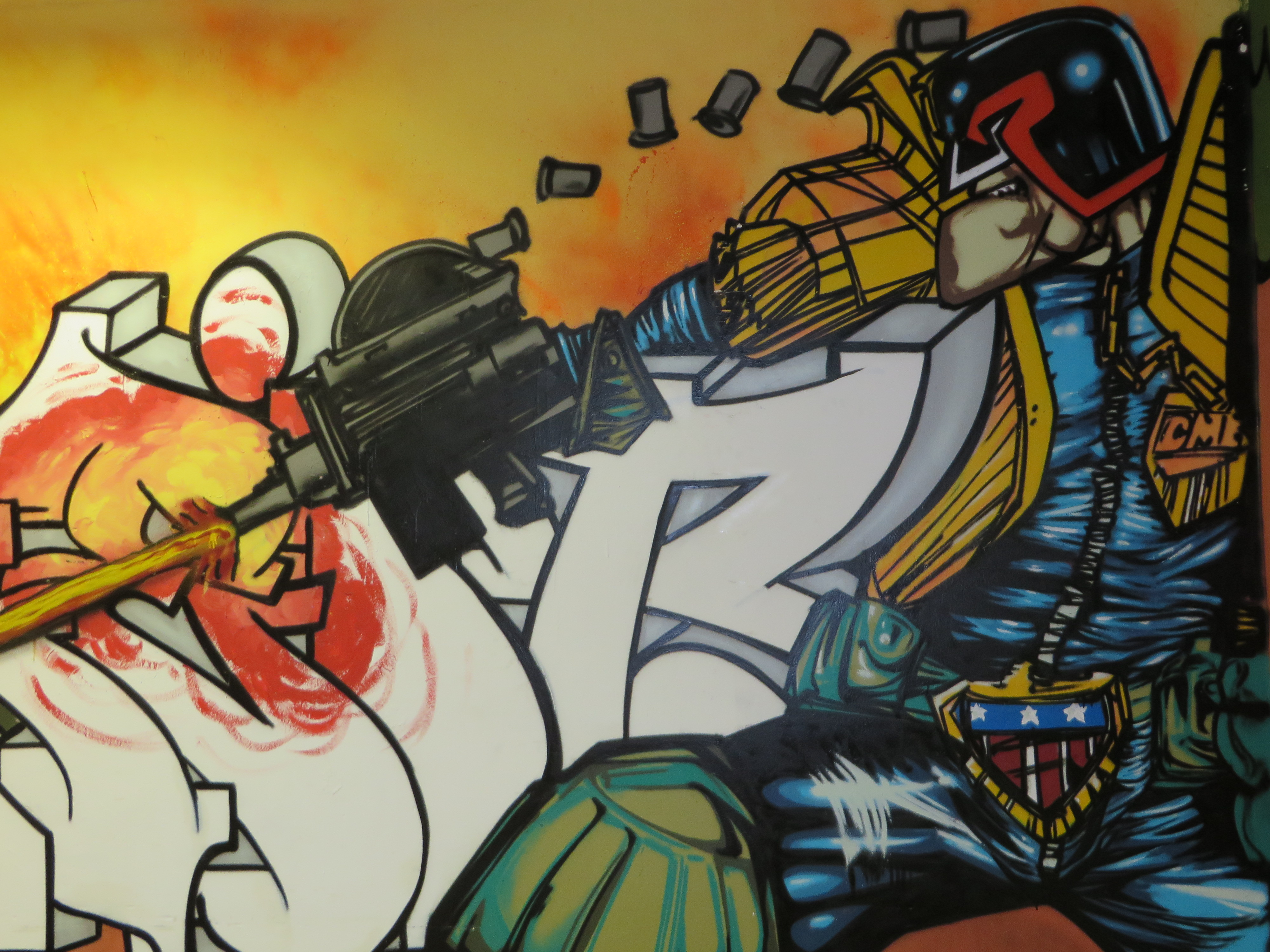 Graffito of Judge Dredd at social centre Trotz Allem in Witten, GermanyEsperanto: Grafitio de Judge Dredd ĉe socia centro Trotz Allem en Witten, Germanio